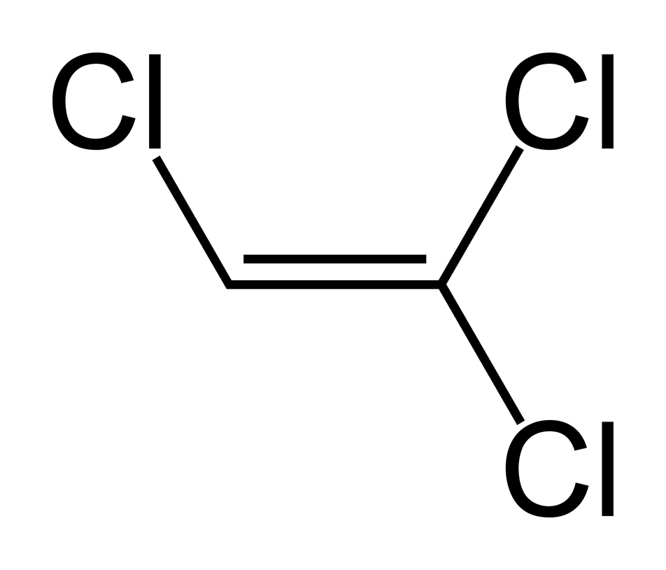 Skeletal formula of the chemical compound trichloroethene (C2HCl3).